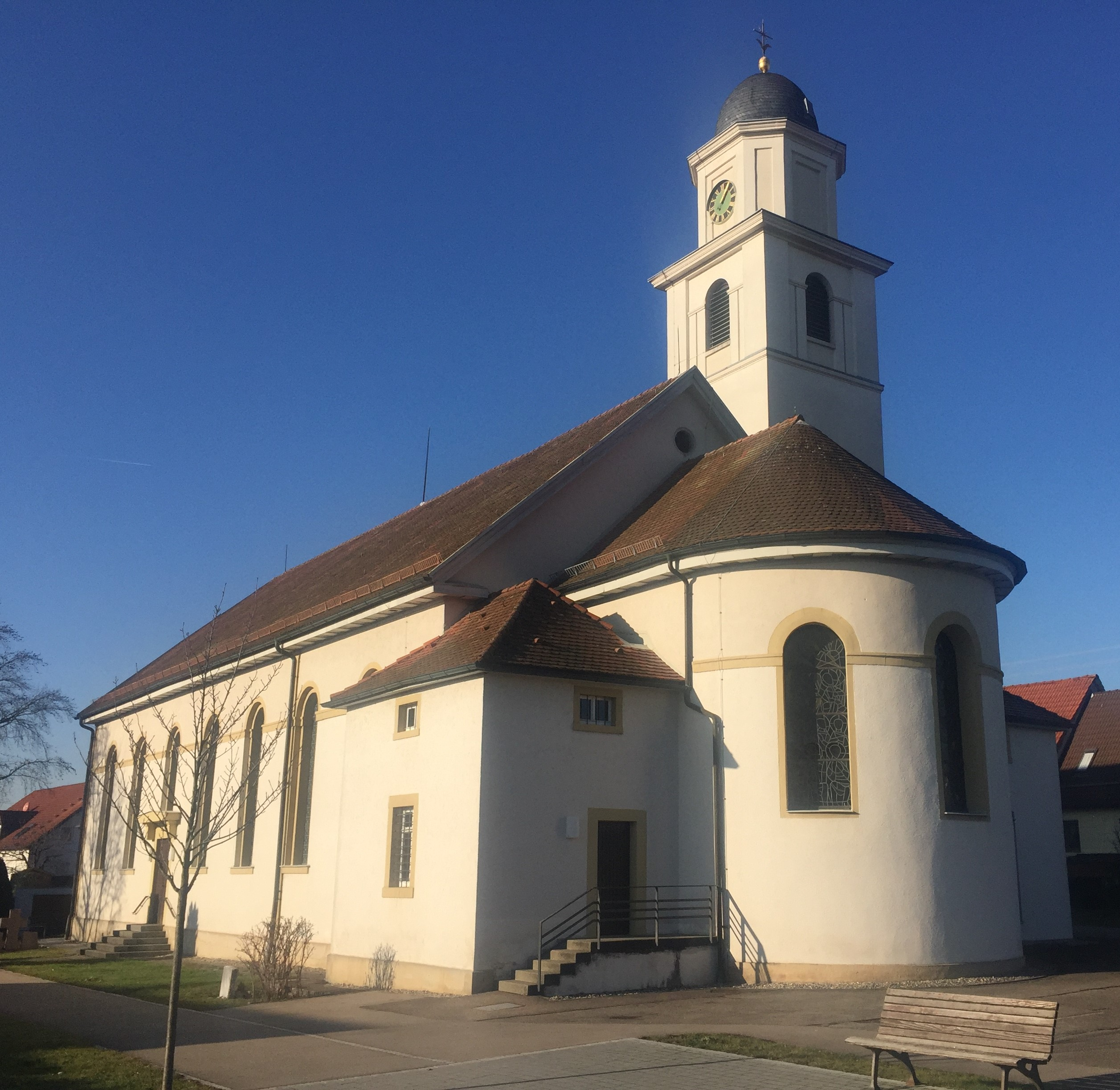 Church St. Alban in Herlikofen